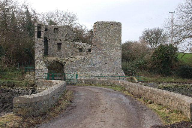 Mahee castle, Strangford Lough Mahee (also known as “Nendrum”) castle is a tower house built in 1570. It stands on Mahee Island at the end of a short causeway. The causeway dates from the 19th century and, before its construction, the only means of access, to the island, would have been by boat (or by wading at low water).